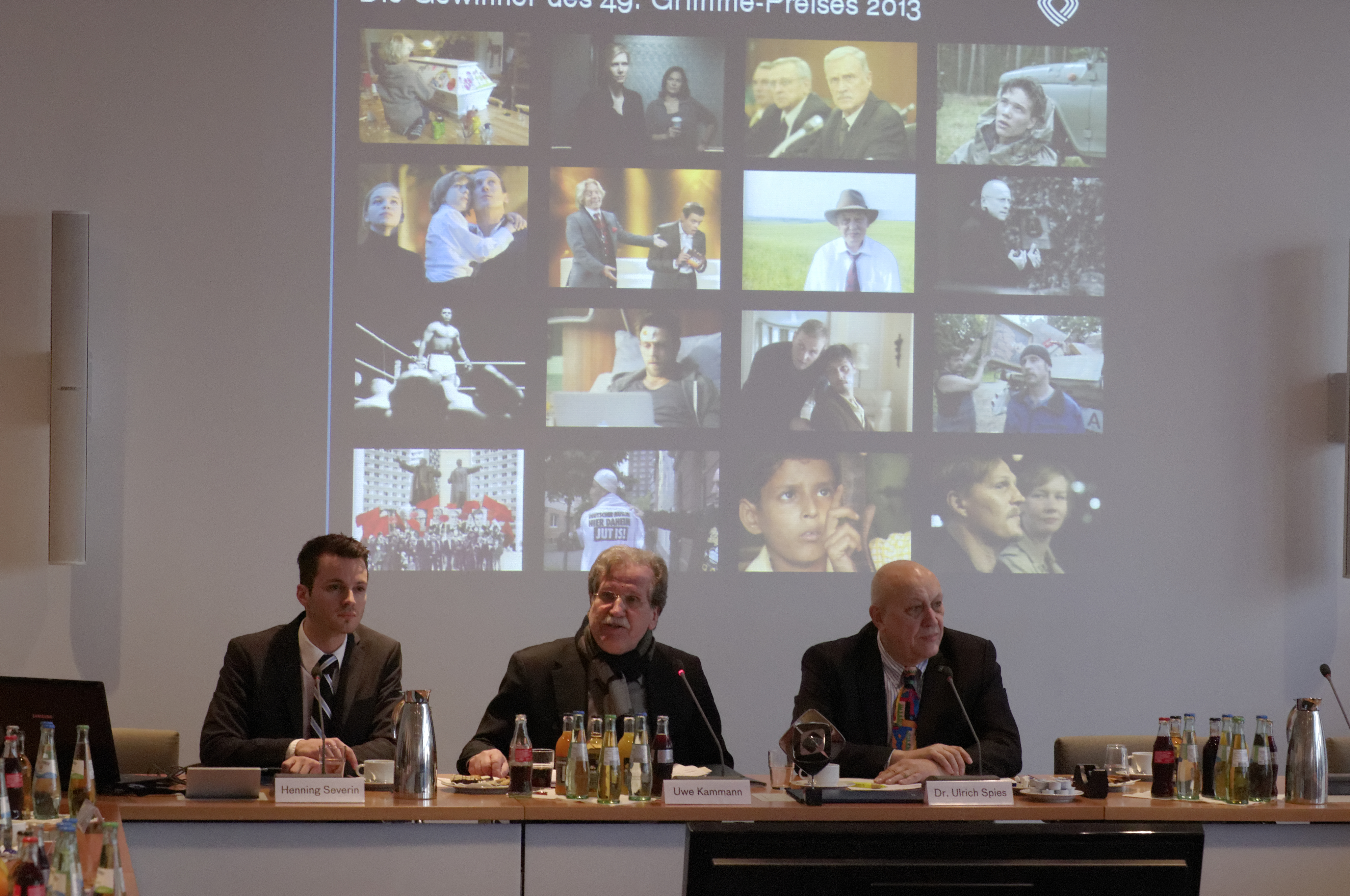 announcement of the winners of the Grimme prize 2013